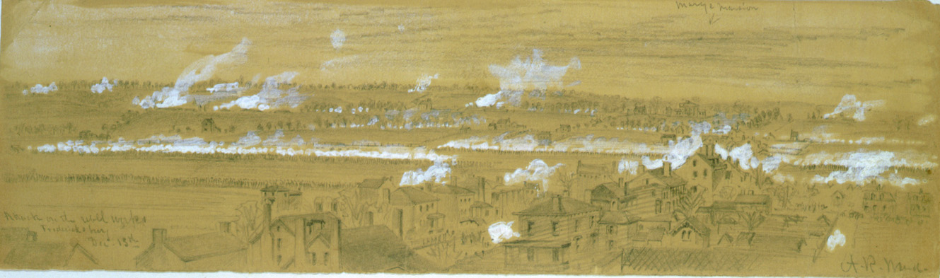 Attack on the Rebel works during the battle of Fredericksburg, American Civil War.